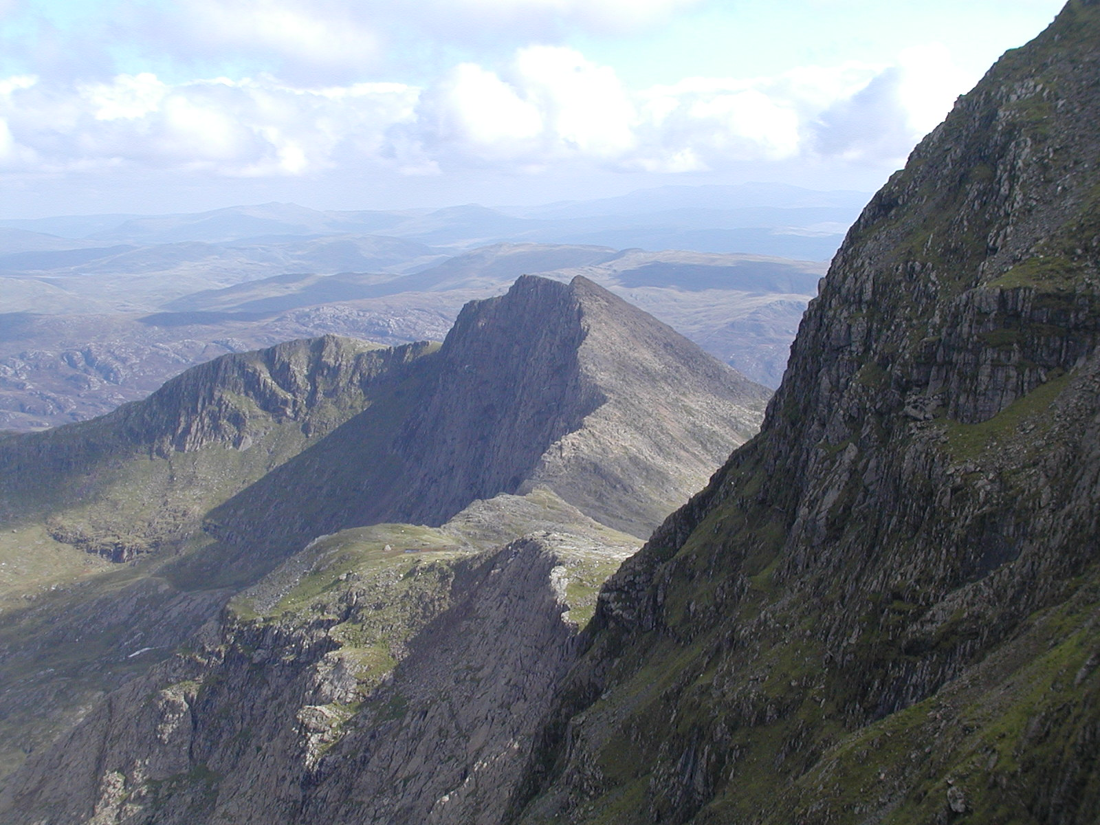 Crib Goch viewed from Snowdon, Snowdonia, Wales